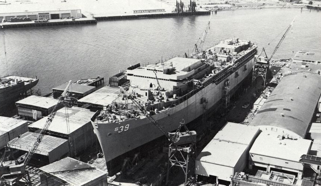 The U.S. Navy submarine tender USS Emory S. Land (AS-39) under construction at the Lockheed Shipbuilding and Construction Company, Seattle, Washington (USA), in 1977. She was launched on 4 May 1977.